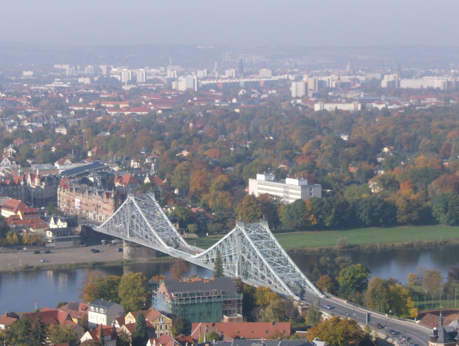 The "Blaue Wunder", bridge over river Elbe near Dresden